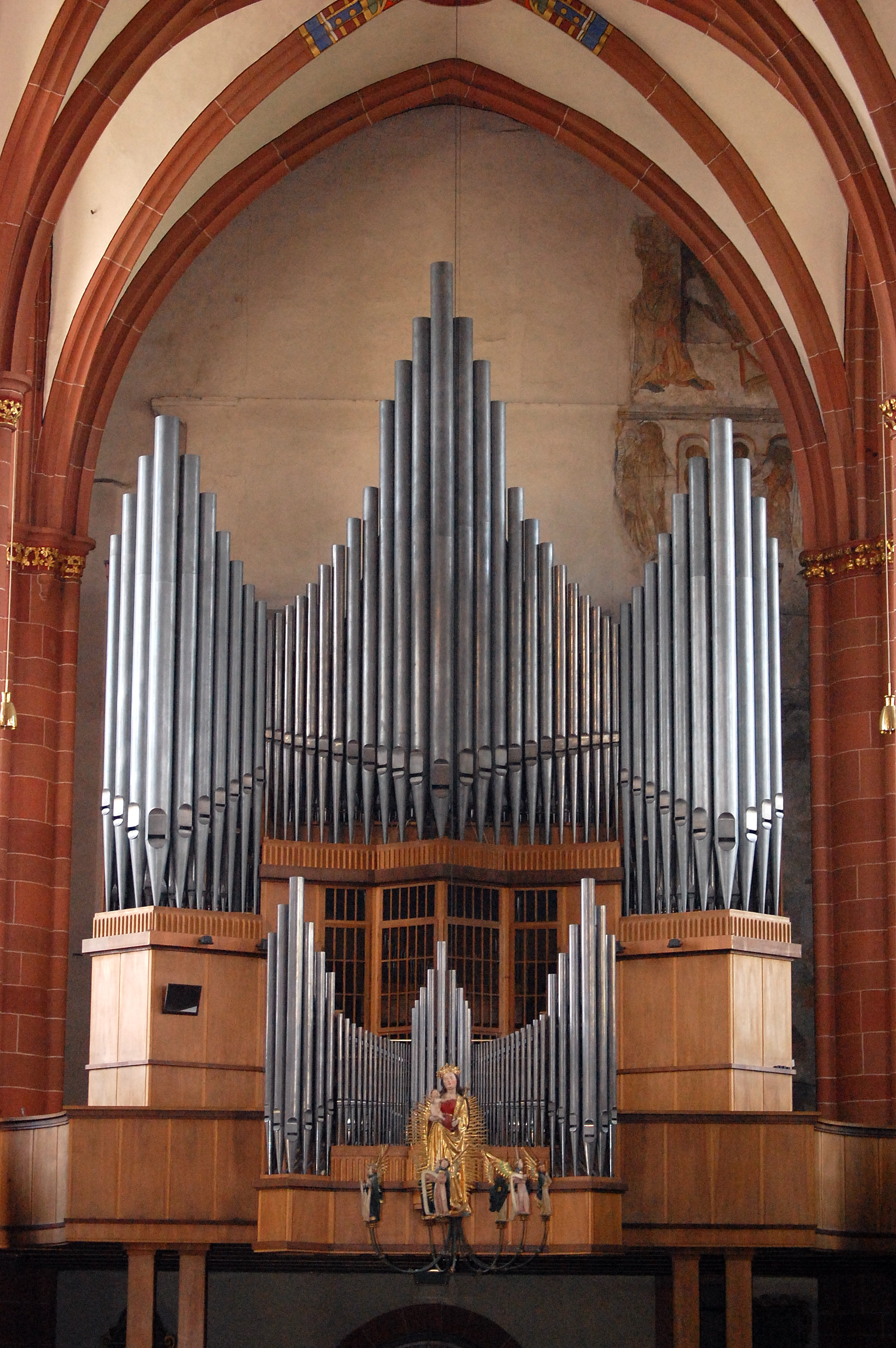 Wetzlar Cathedral Organ